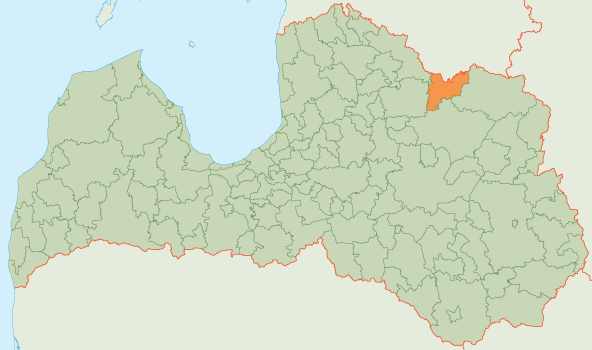 Ape Map